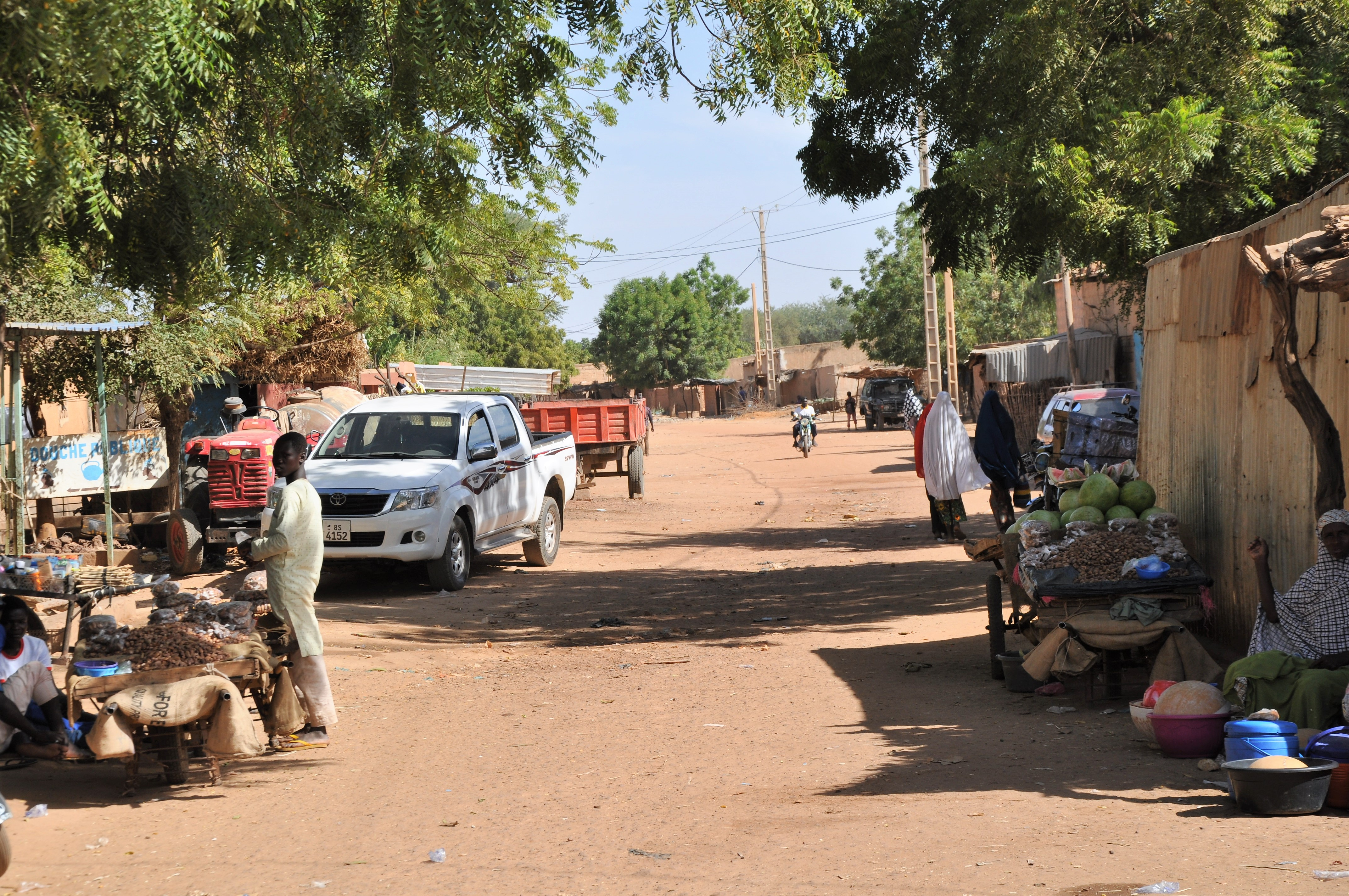 A street in Dogontdoutchi, Niger (Department of Dogondoutchi; Dosso Region)